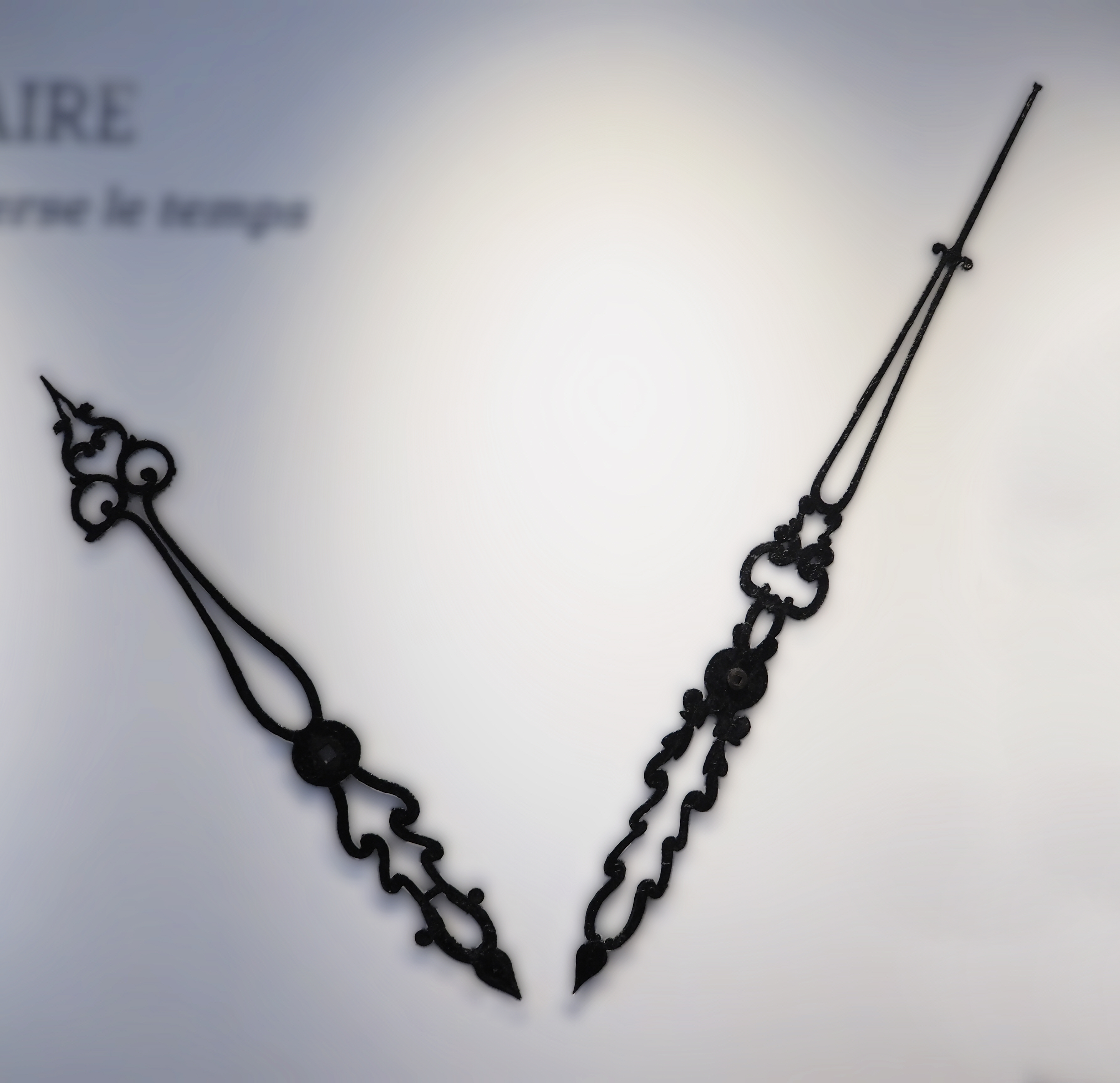 Hands from the clock of the Old Seminary of Saint Sulpice (1822). These hands are driven by a mechanism by Jean-Joseph Lepaute, known as Collignon, the King's watchmaker, located at the Faubourg Saint-Honoré in Paris. This old clock, with a wooden mechanism, would have been the first public clock in Montreal. (exhibition notice, 2017)